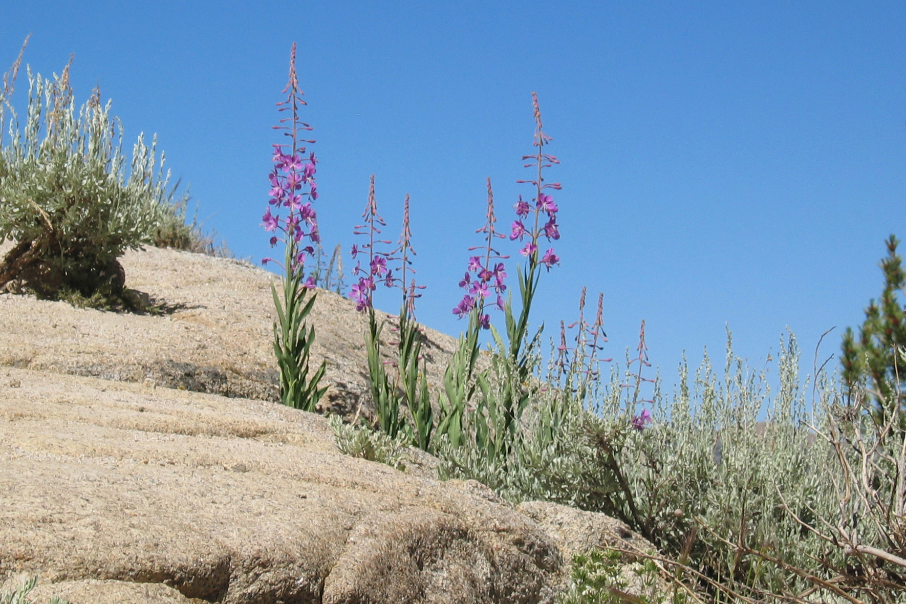 Fireweed (Epilobium angustifolium) on rock, against sky. Mono Pass trail, Little Lakes Valley, John Muir Wilderness, Sierra Nevada mountains, California.